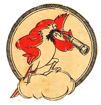 108th Observation Squadron - Emblem